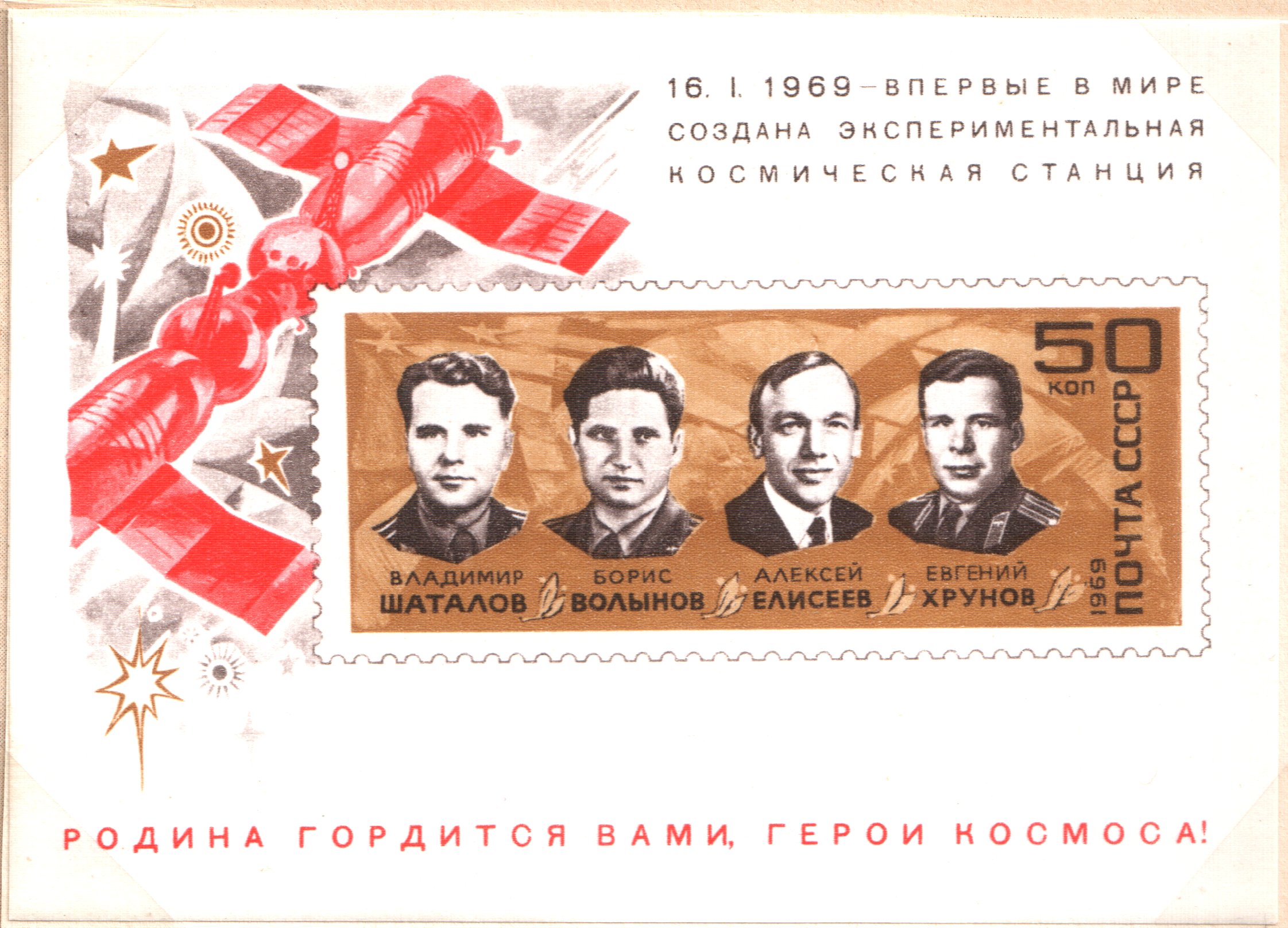 USSR sheet of 1: Vladimir Shatalov, Boris Volynov, Aleksei Yeliseyev and Yevgeny Khrunov. Series: 1st Team Spaceflights of Soyuz 4 and Soyuz 5, 1/16/69